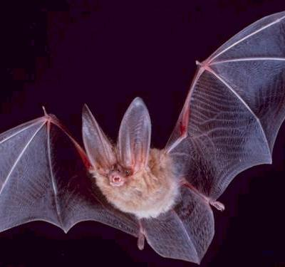 I made it, using Image:Big-eared-townsend-fledermaus.jpg.